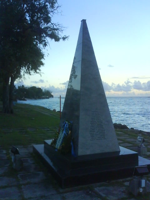 A monument to remember the crash victims of the 1976 Cubana Flight 455 bombing located on Highway 1, (Payne's Bay), St. James, Barbados.